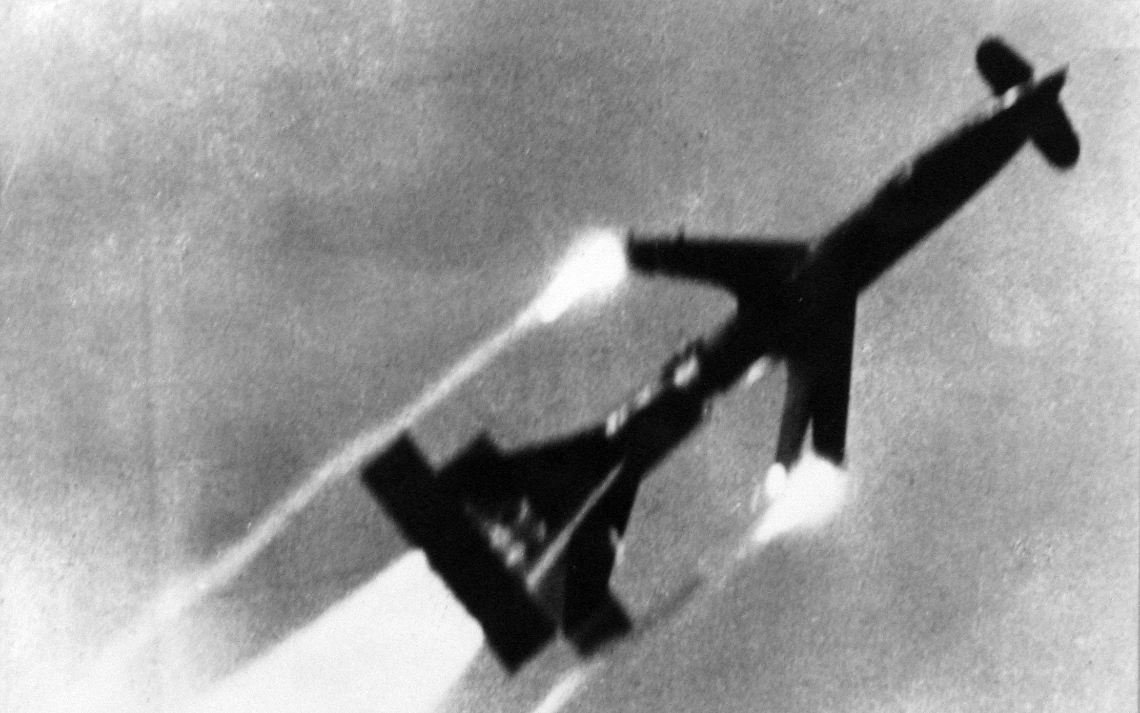 Remote-controlled anti-aircraft missile "Rheintochter 1" on the flight, 1944